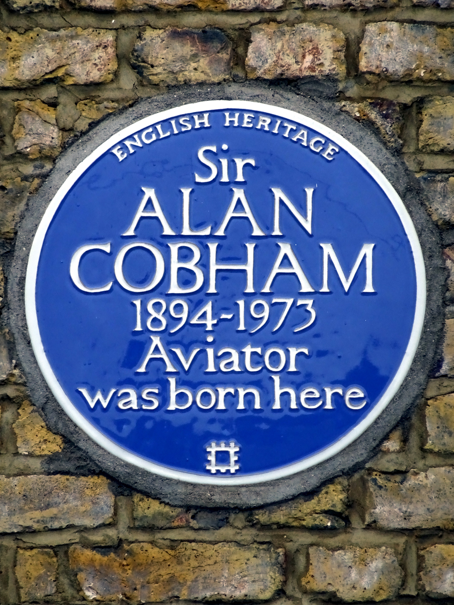 Blue plaque erected in 2003 by English Heritage at 78 Denman Road, Peckham, London SW15 5NR, London Borough of Southwark